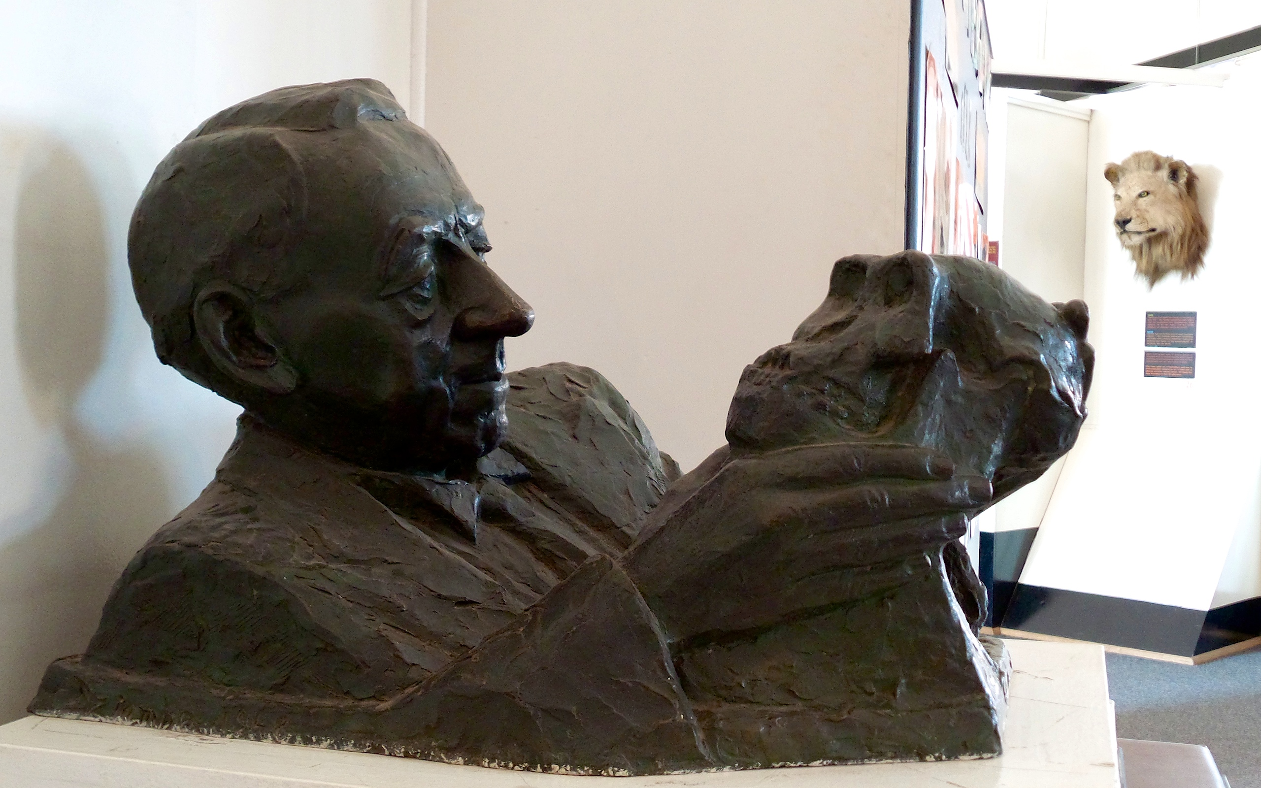 Transvaal Museum, Paul Kruger Street, Pretoria. Bust of Robert Broom and Mrs Ples This media shows a South African Protected Site with SAHRA file reference 9/2/258/0100.